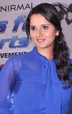 Sania Mirza at the NDTV Marks for Sports event